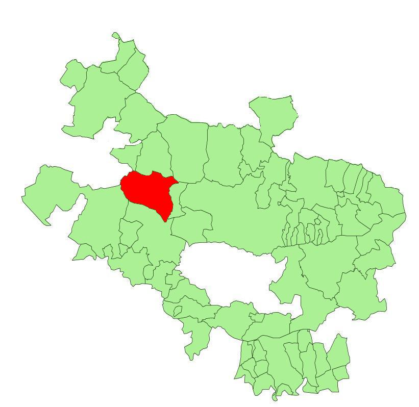 Kuartango municipality in the province of Alava